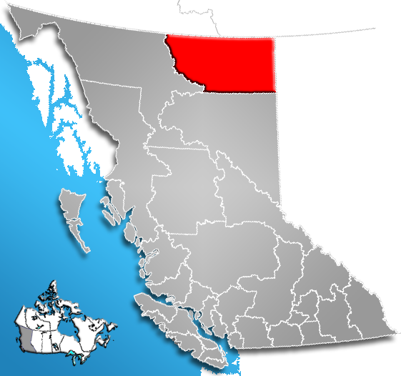 Location of Northern Rockies Regional District, British Columbia